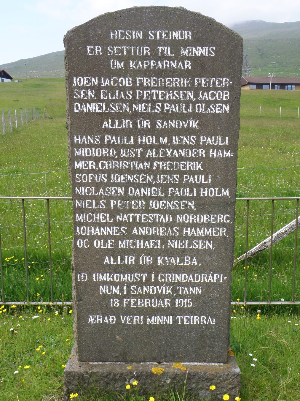 Memorial in memory of 14 young men from Hvalba and Sandvík, Faroe Islands, who lost their lives during a whale hunt in Sandvík on 13 February 1915.